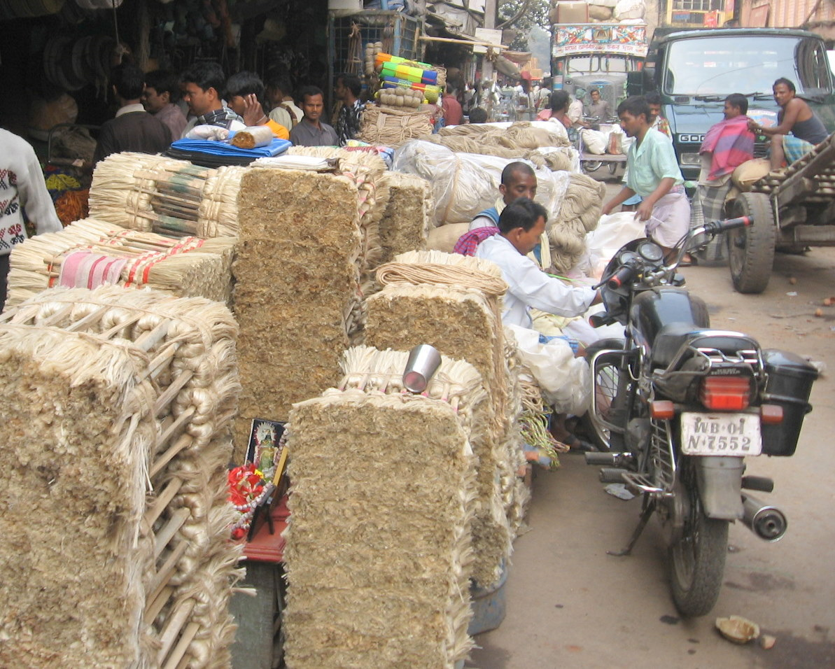 Maharshi Debendra Road, Kolkata